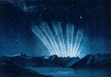 Comet C/1743 X1, The Great Comet of 1744, or "Comet de Cheseaux-Klinkenberg", at 4am on March 9, 1744, showing six tails rising above the horizon